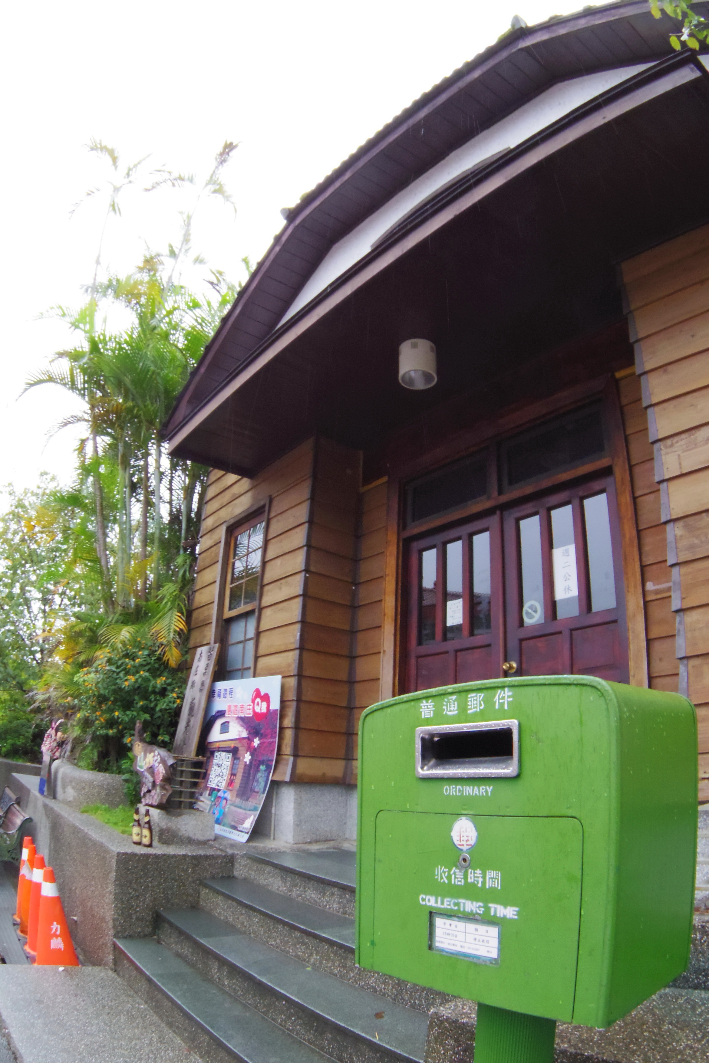 The Nanzhuang post office was the former postal facility established in 1900 and rebuilt in 1935. It was registered as a historic structure by Miaoli Government on October 23, 2003.